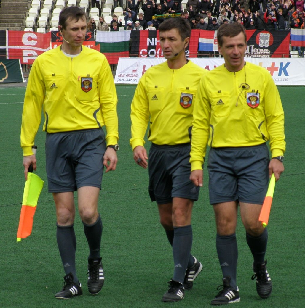 Almir Kayumov (in center), S. Barabash & S. Romanov in match between FC Amkar and FC Kuban